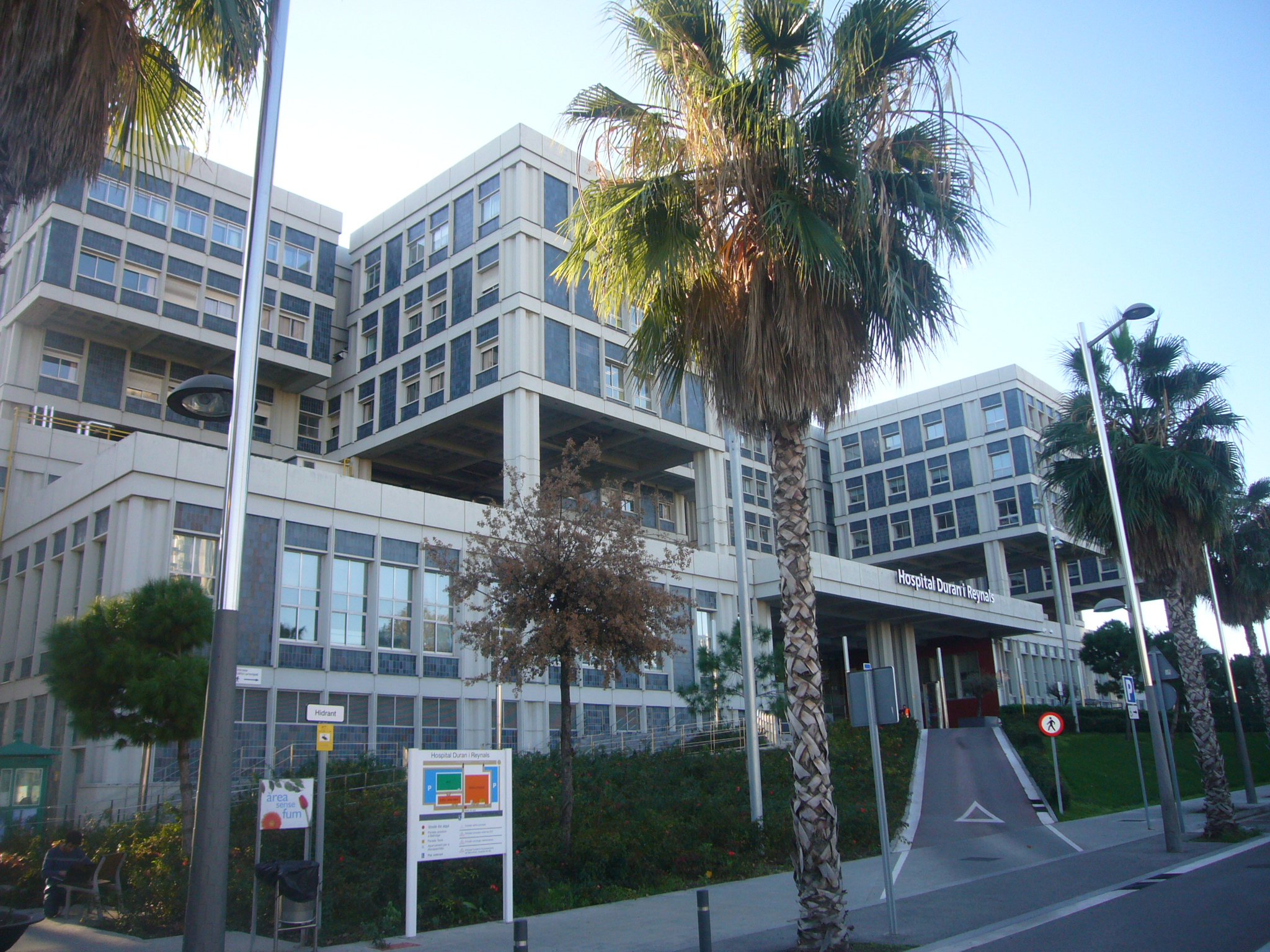 Hospital Duran i Reynals, specialized in oncology